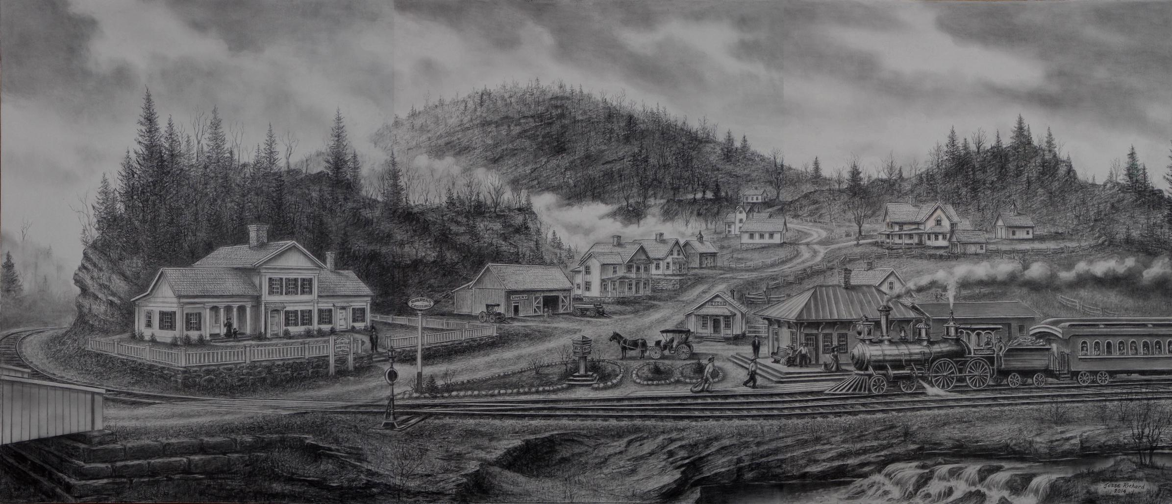 Illustration of East Litchfield village in late 1800'S